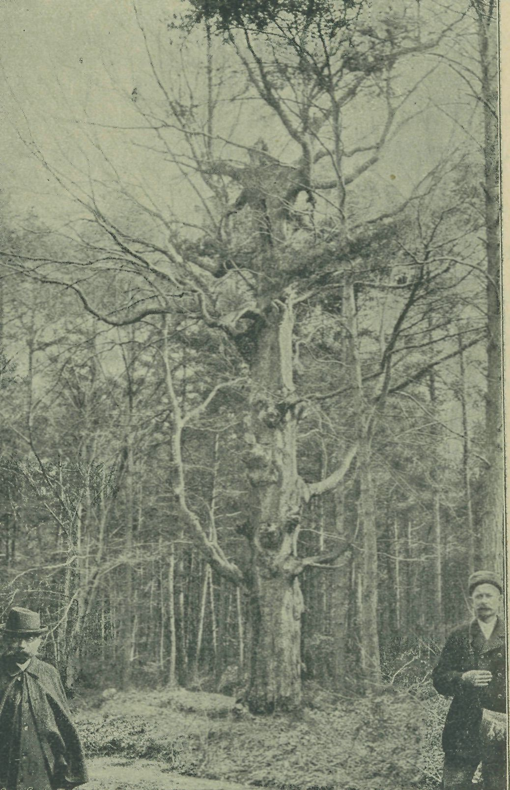 Memorable boundary tree (beech) in Prerubenice forest, Czech Republic